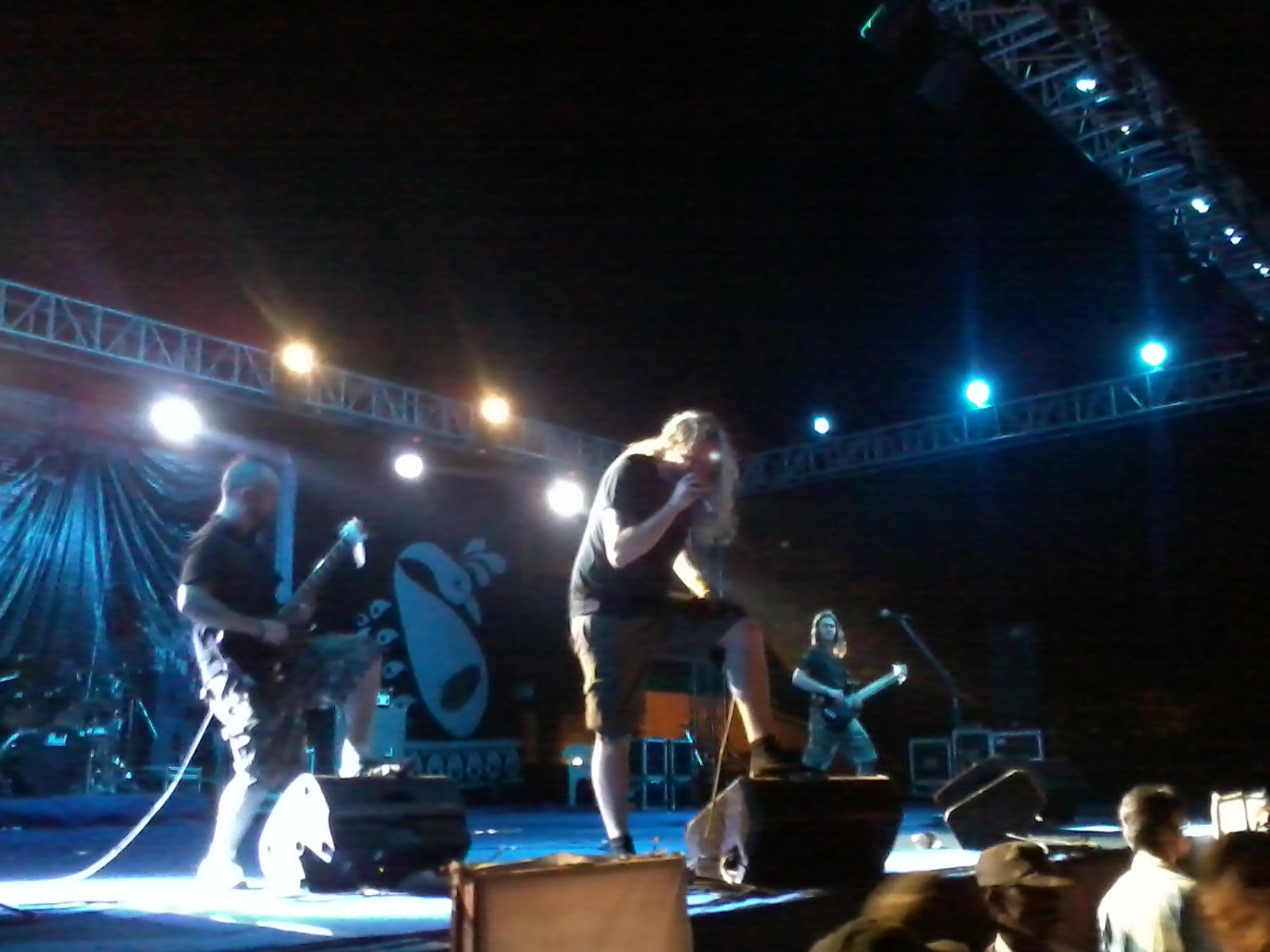 Rock band from UK performing in NITW's annual cultural event, SpringSpree 2011.